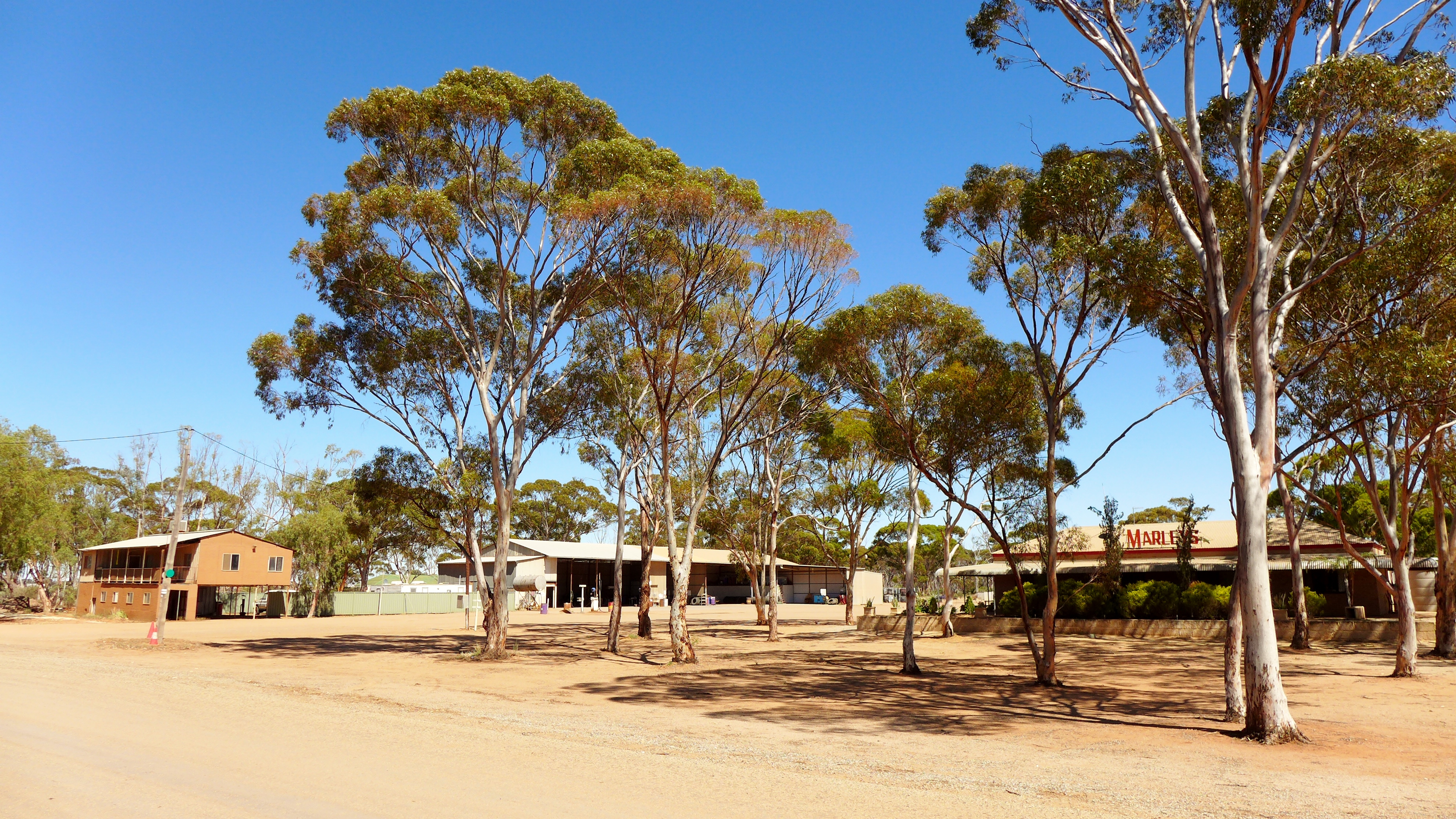 View of the Marleys Transport depot at Nangeenan, near Merredin, Western Australia.